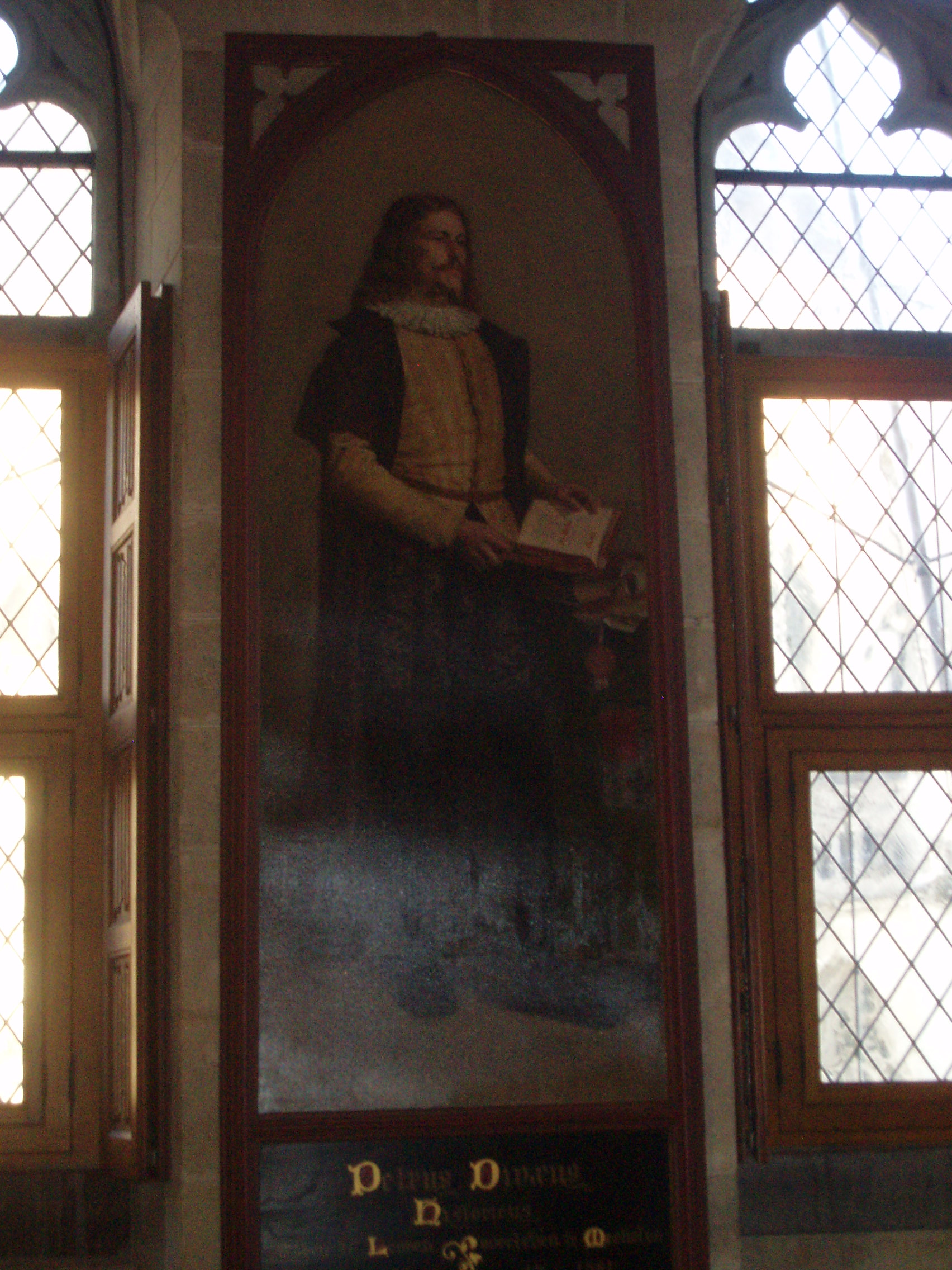 Hennebicq Petrus Divaeus